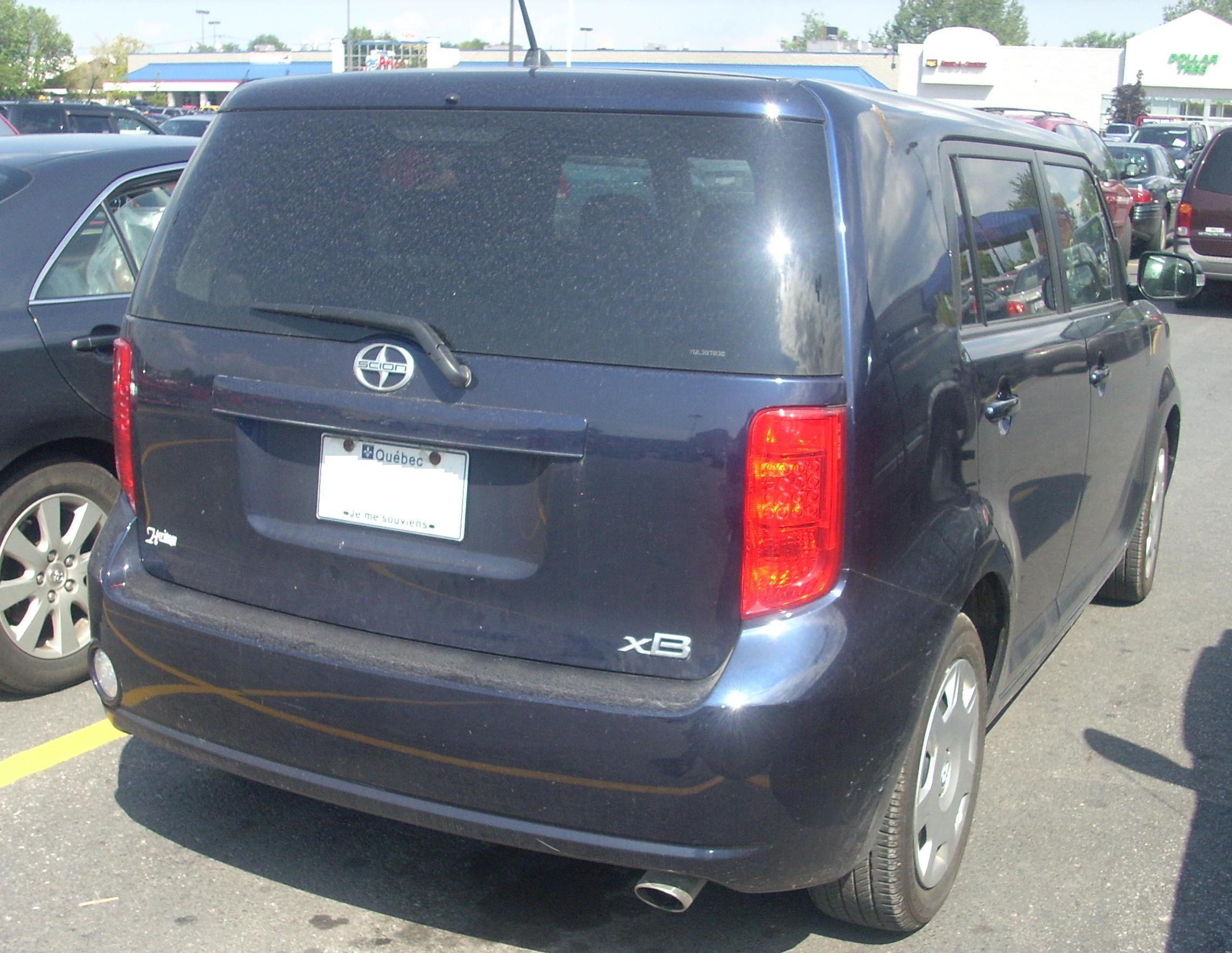 2008-present Scion xB photographed in Plattsburgh, New York, USA.